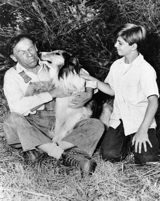 Photo from the television program Lassie. While Jeff (Tommy Rettig) looks on, Lassie makes friends with the grumpy land owner (Otto Waldis).